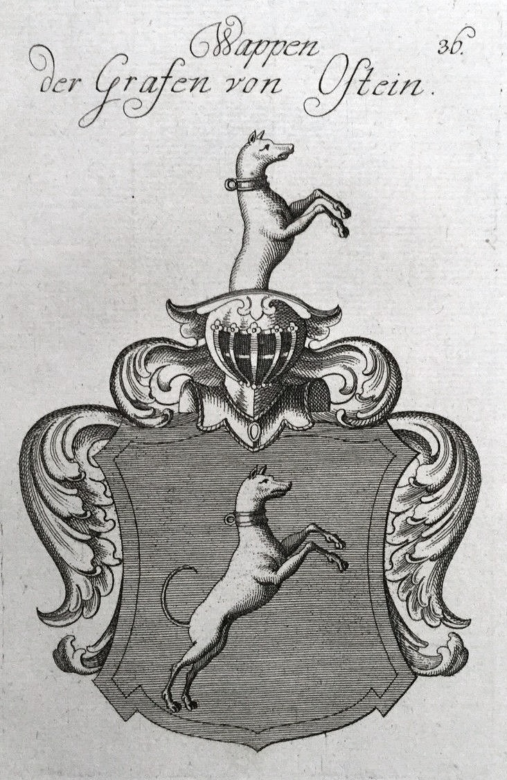 Wappen der elsässischen Adelsfamilie von Ostein